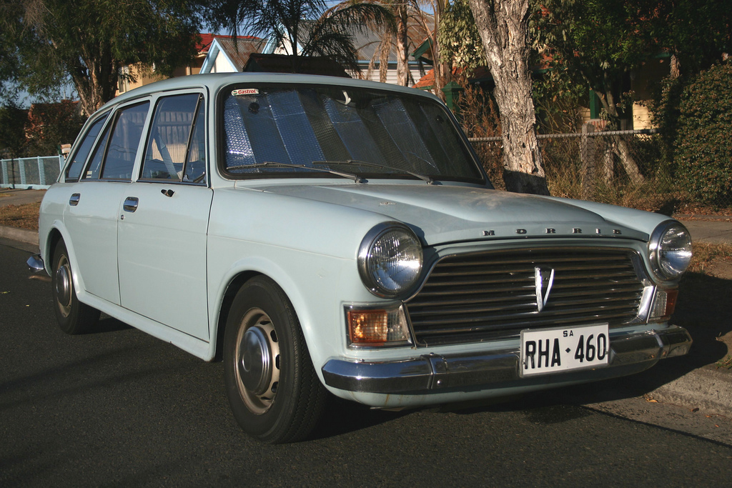 Front view of the Morris Nomad, an Australian derivative of the ADO16 design.